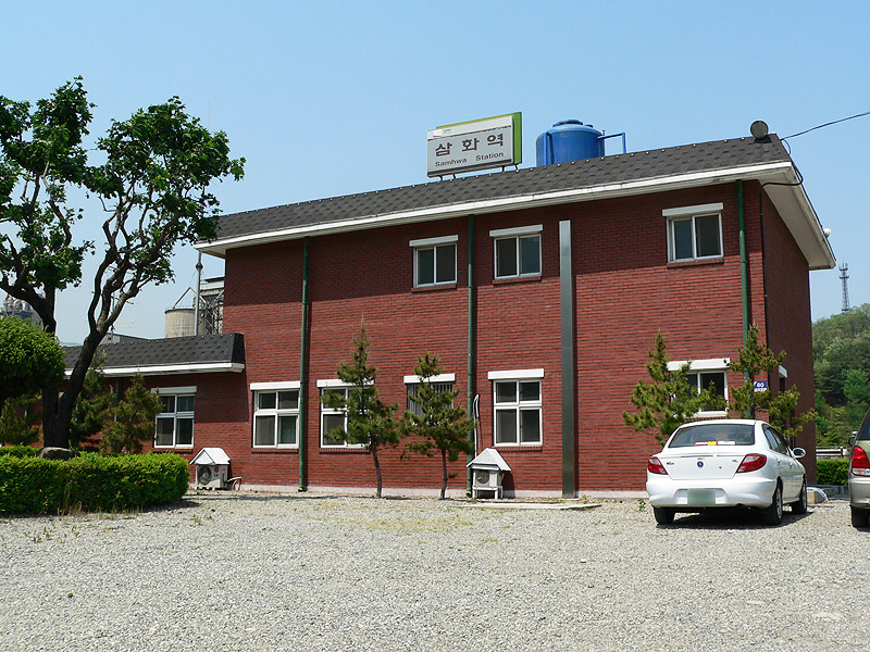 KORAIL Samhwa Station